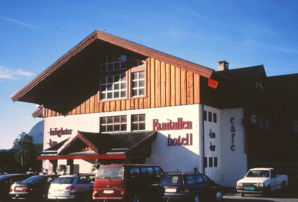 The Fanitullen Hotel in Hemsedal, Norway. August 1, 1999.